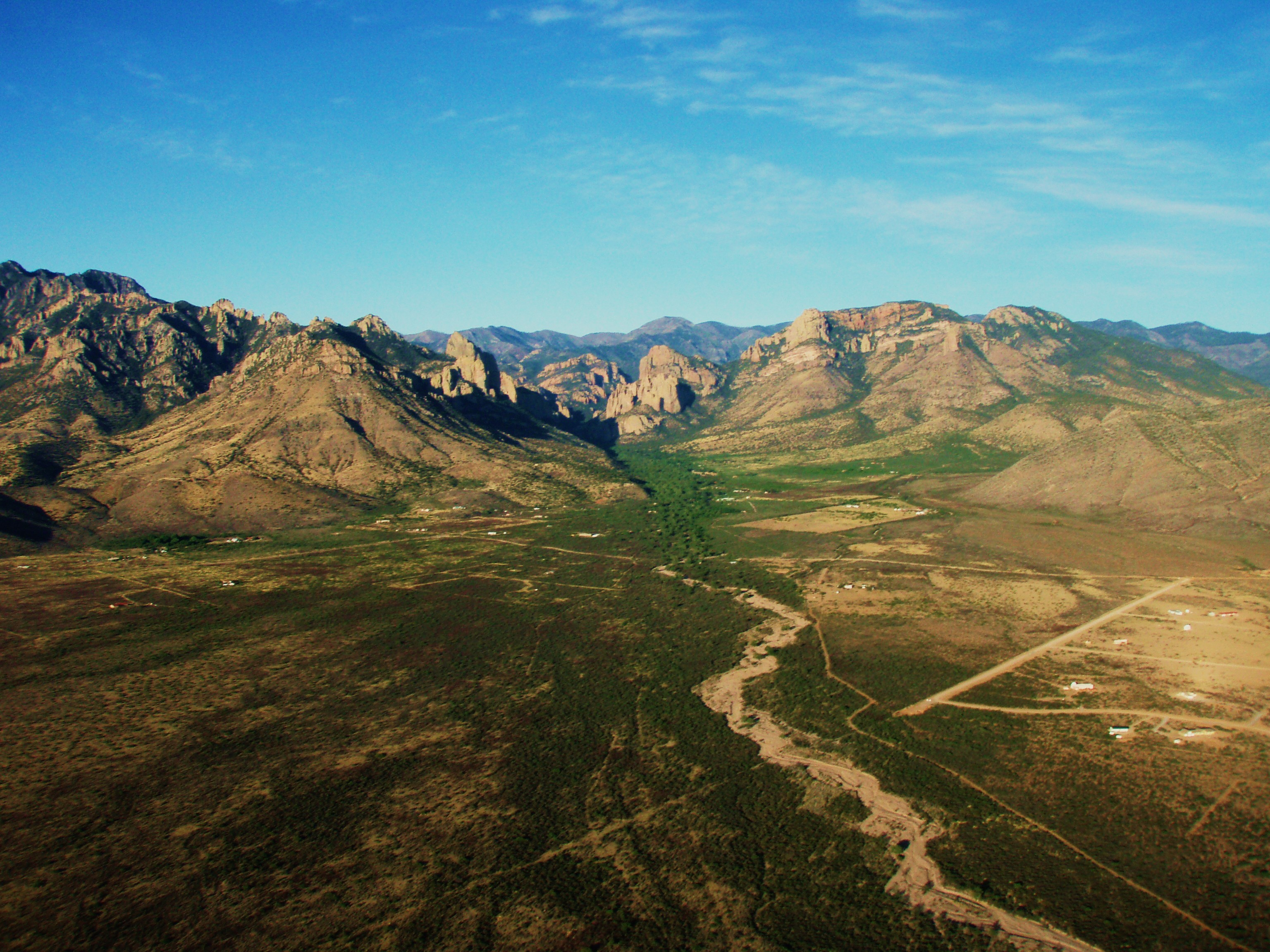 Aerial view of Cave Creek Canyon in the Chiricahua Mountains in south east Arizona.